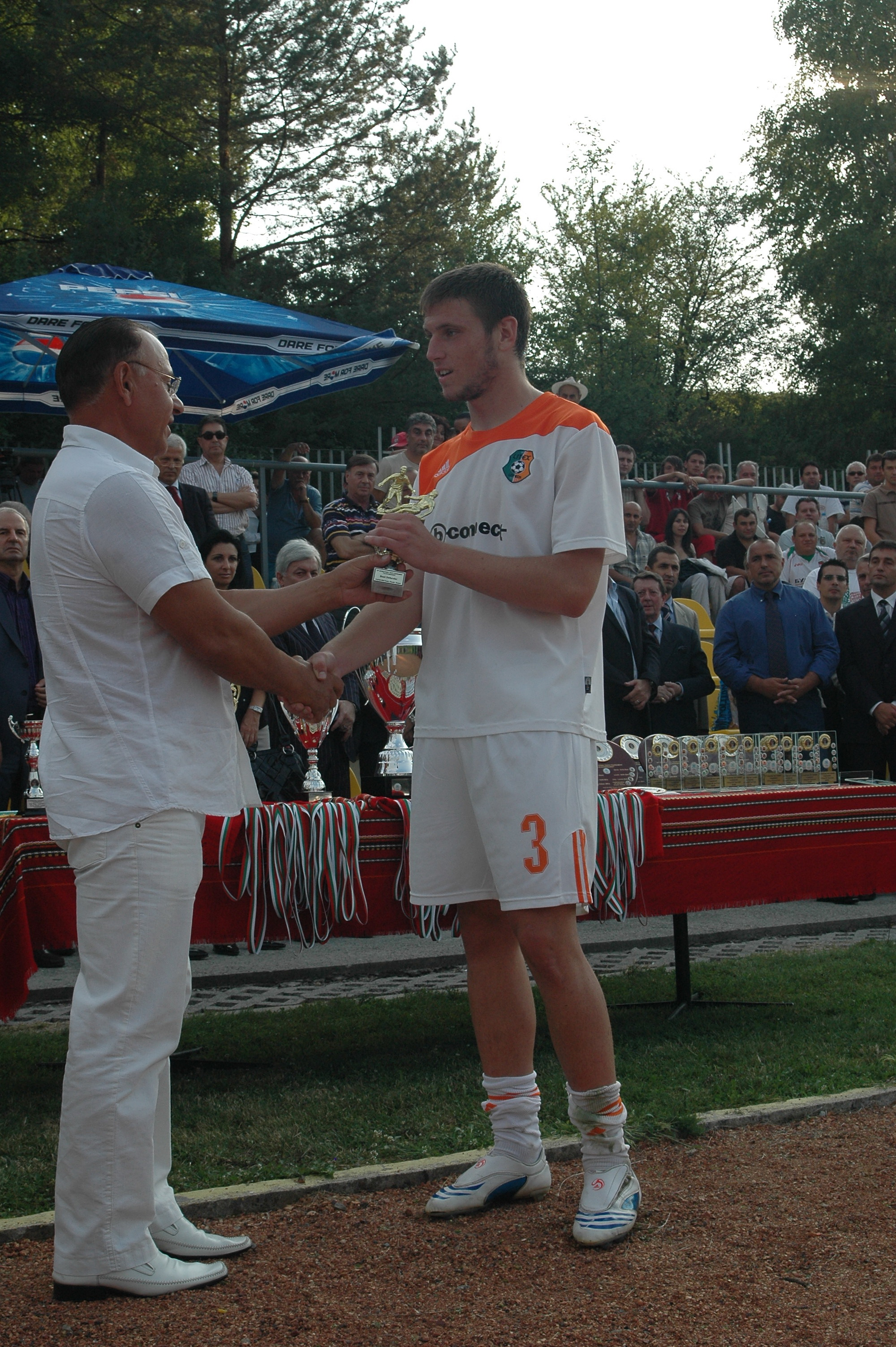 Emil Grozev